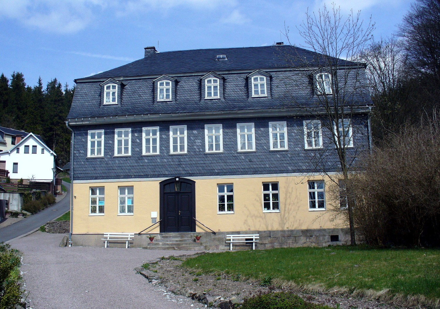 Goethehaus in Stützerbach